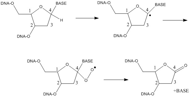 Route of deoxyribonolactone formation